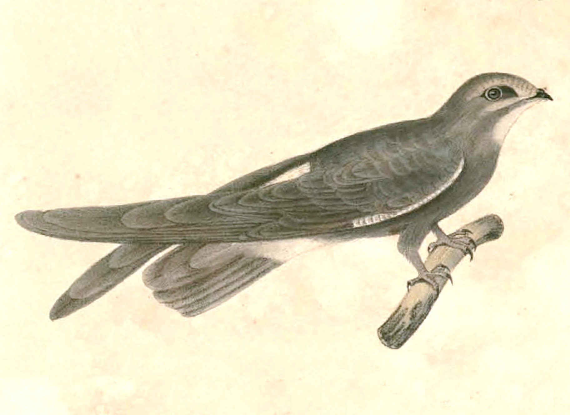 « Cypselus affinis » = Apus affinis (Little Swift)